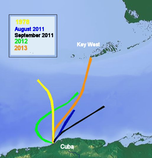 The Havana to Key West swimming routes made by Diana Nyad on five separate attempts from 1978 to 2013.